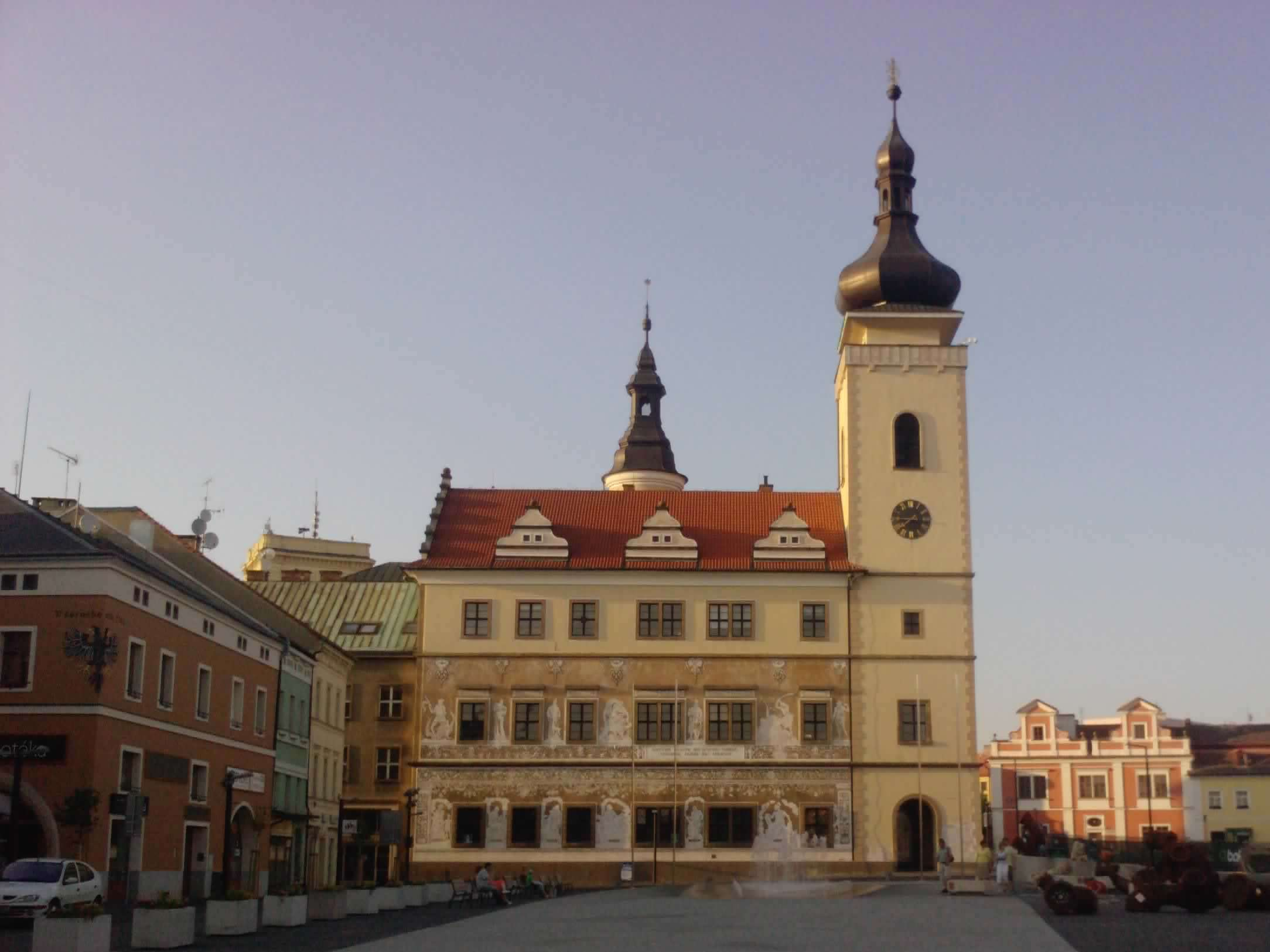 Old city hall in Mladá Boleslav.